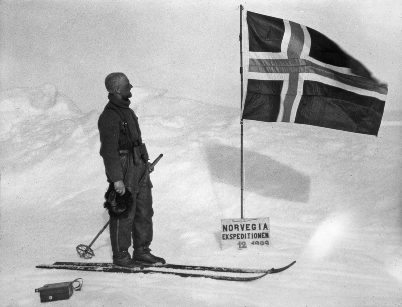 From the third Norvegia Expedition 1929-30.